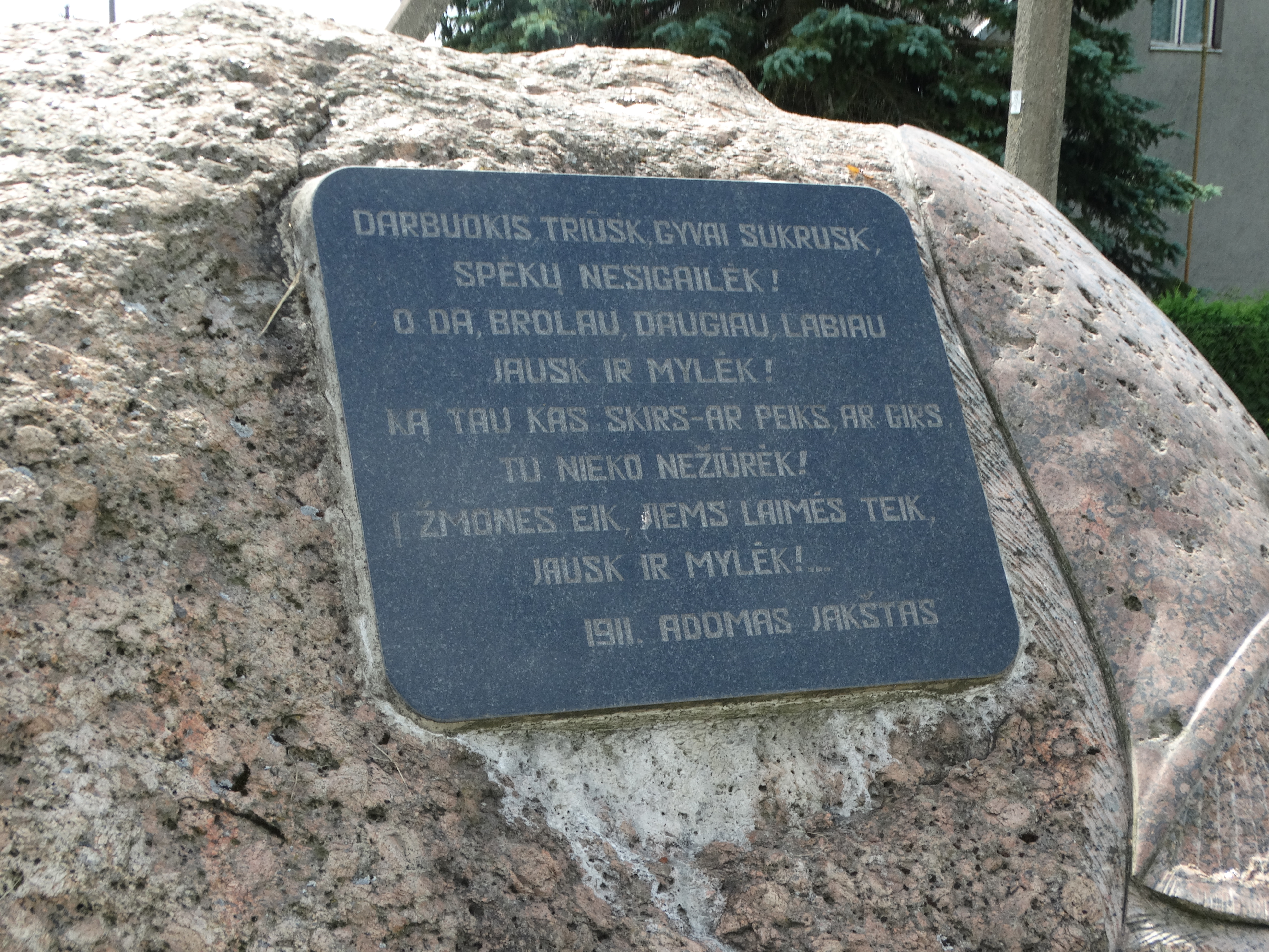 Pagiriai, memorial plaque to Adomas Jakštas, Kėdainiai district, Lithuania